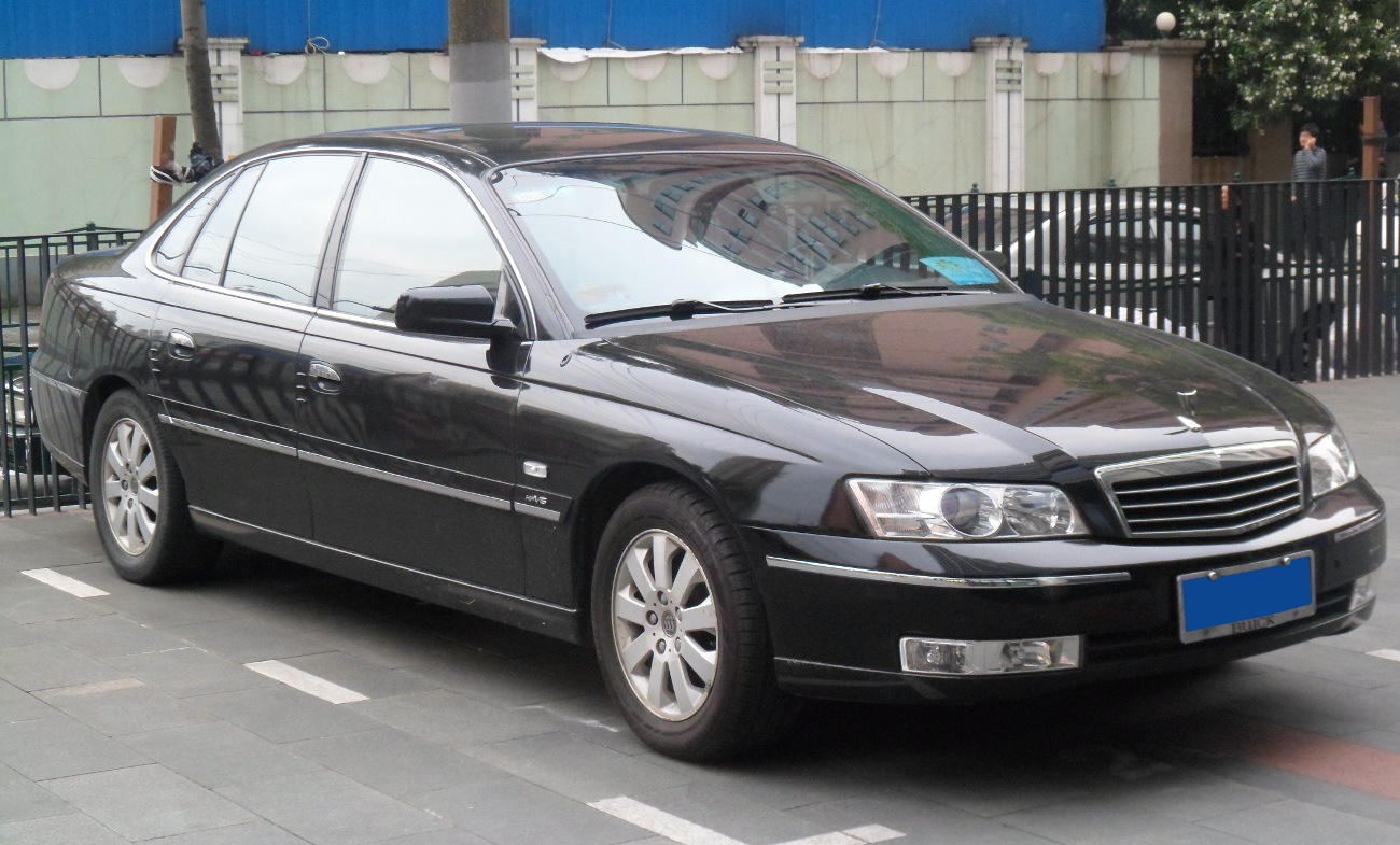 Buick Royaum photographed in Shanghai, China.